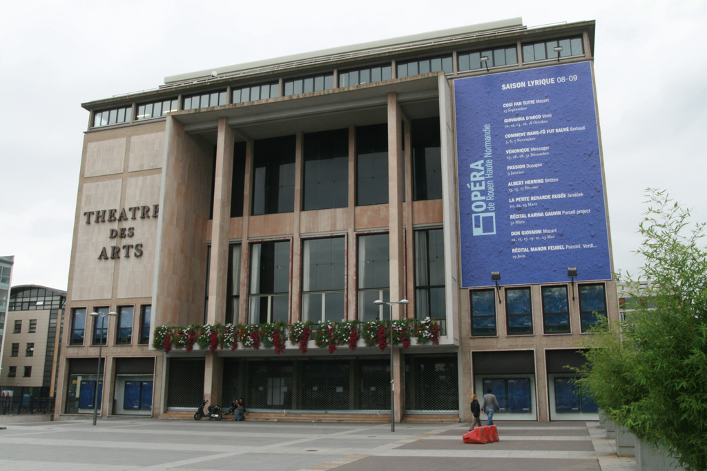 Theater of Arts in Rouen